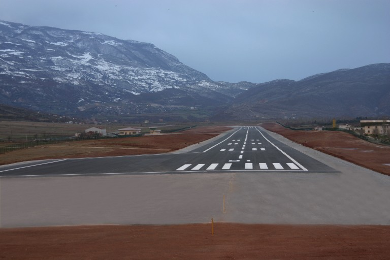 Kukës Airport